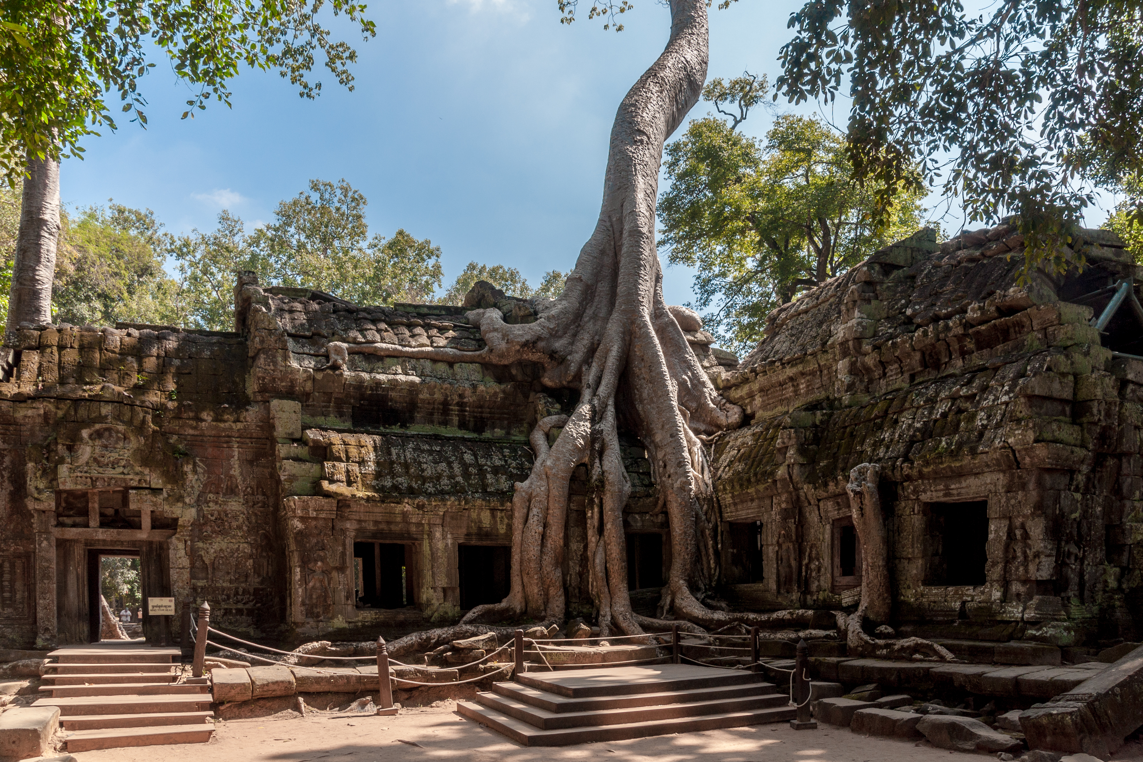 Angkor, Siem Reap, Cambodia: Tha Prom Temple